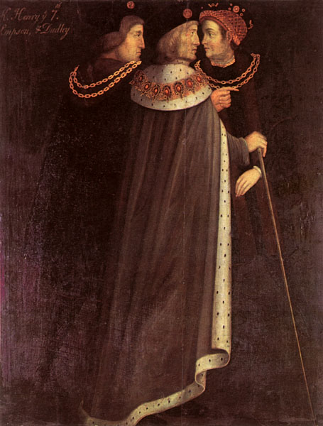 L-R: Richard Empson (d. 1510); Henry VII of England (1457-1509); Edmund Dudley (1462-1510)